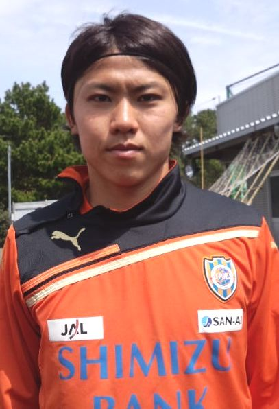 Kosuke Ota from Shimizu S-Pulse